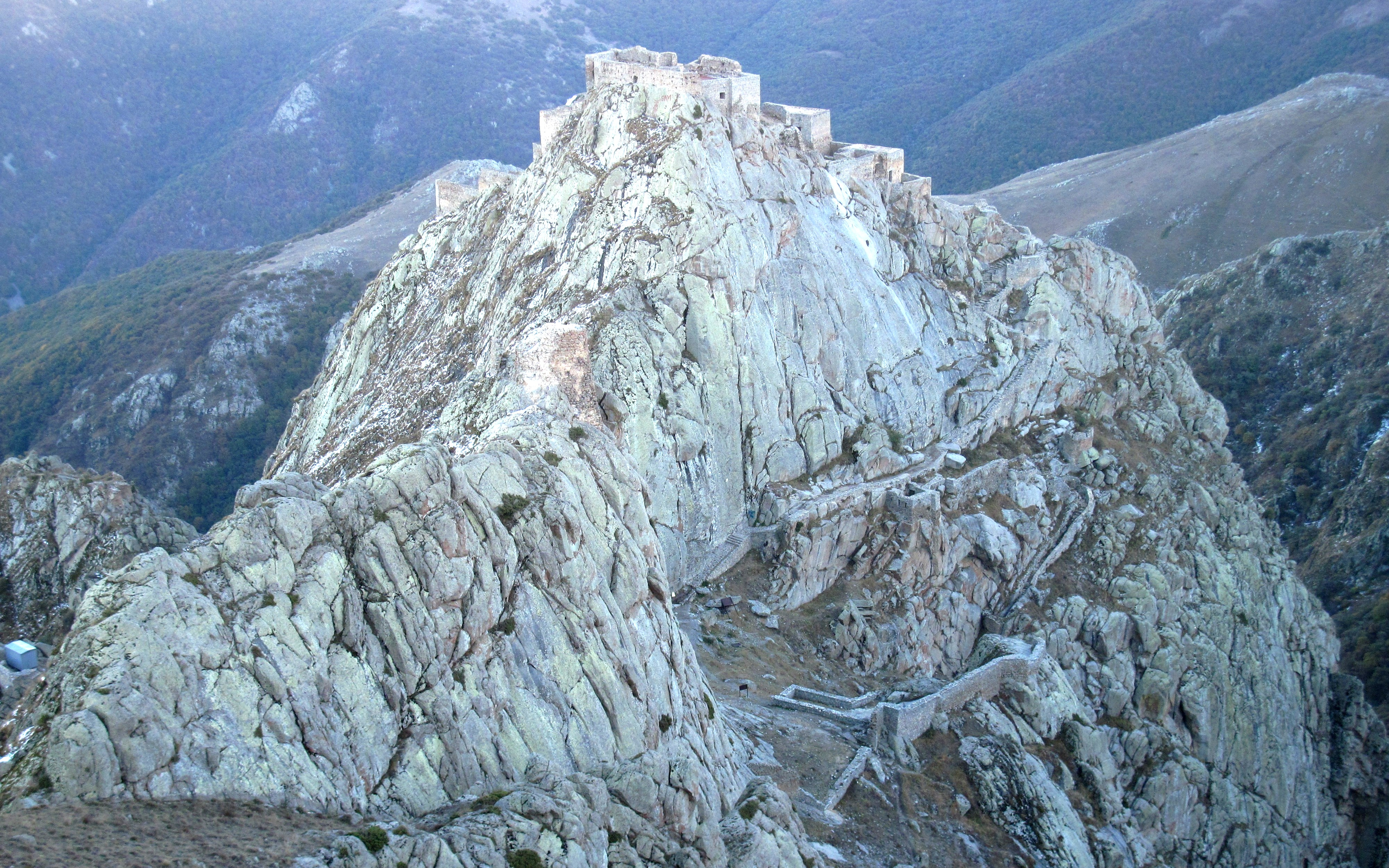 For Kaleybar county wiki page